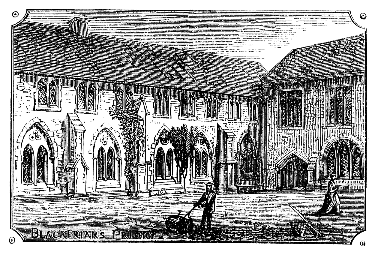 Blackfriars Priory in Bristol. Cropped from Image:Bristol 1873 - Bottom half.png. (Original title "The Bristol Music Festival: Views in Bristol"). The building is in what is now known as Quakers Friars.